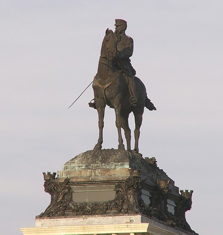 View of the top of the Monument to Alfonso XII of Spain in the Retiro Park (Jardines del Buen Retiro) in Madrid, built from 1902 to 1922. The bronze equestrian statue of the King was made by sculptor Mariano Benlliure and placed at the top in 1909.